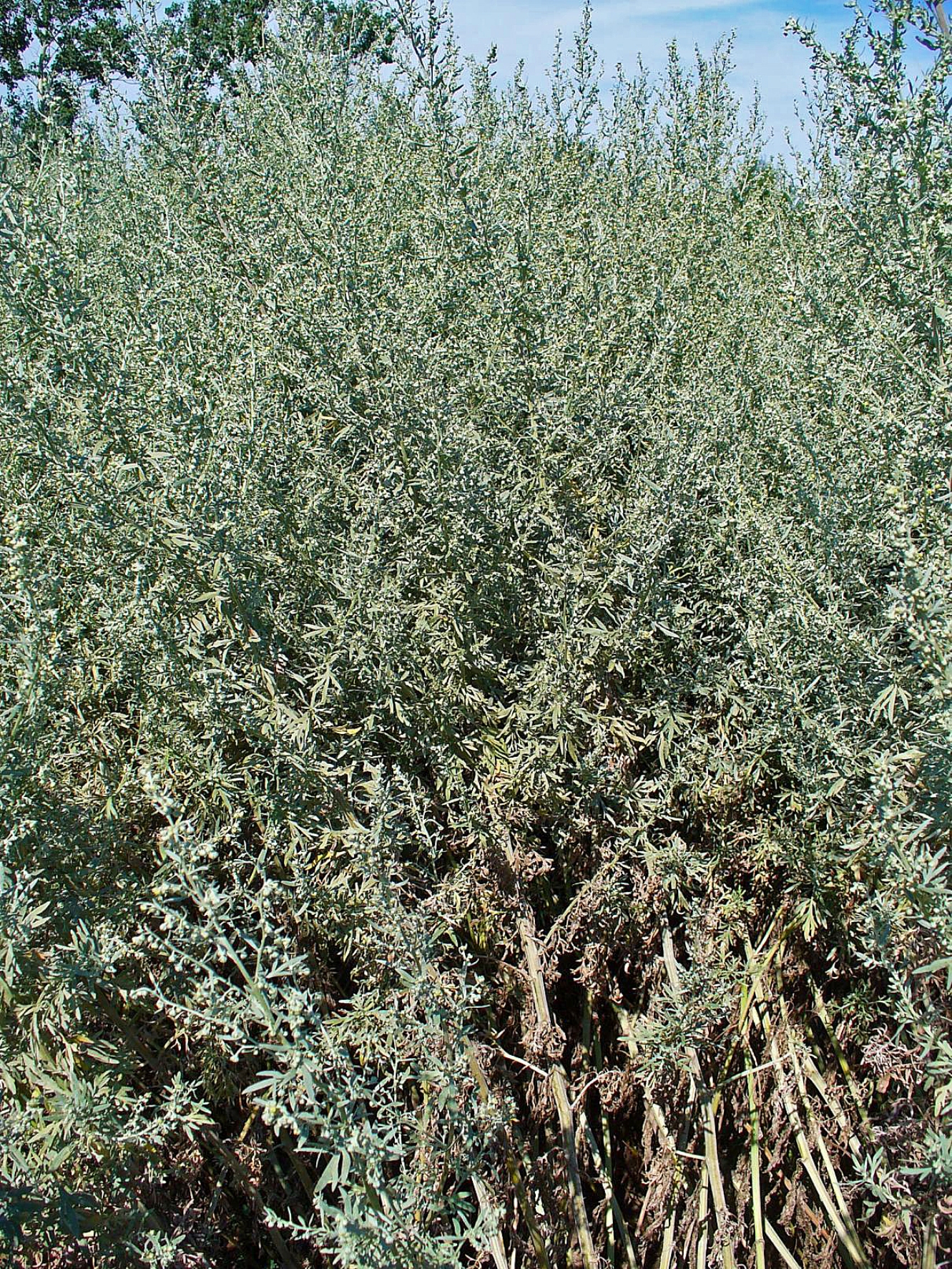 Artemisia absinthium, Asteraceae, Absinthium, Wormwood, habitus. The leaves and flowers are used in homeopathy as remedy: Absinthium (Absin.)